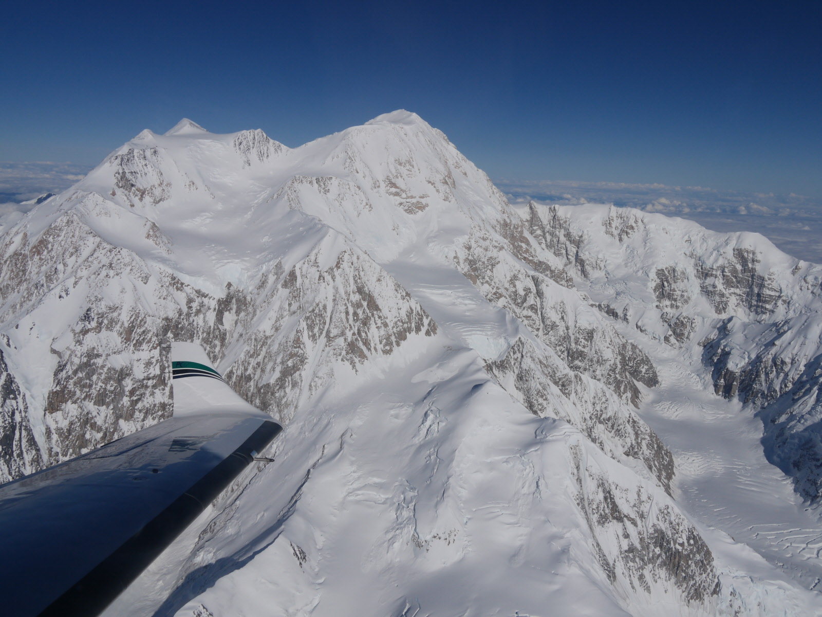 Mount McKinley West Buttress